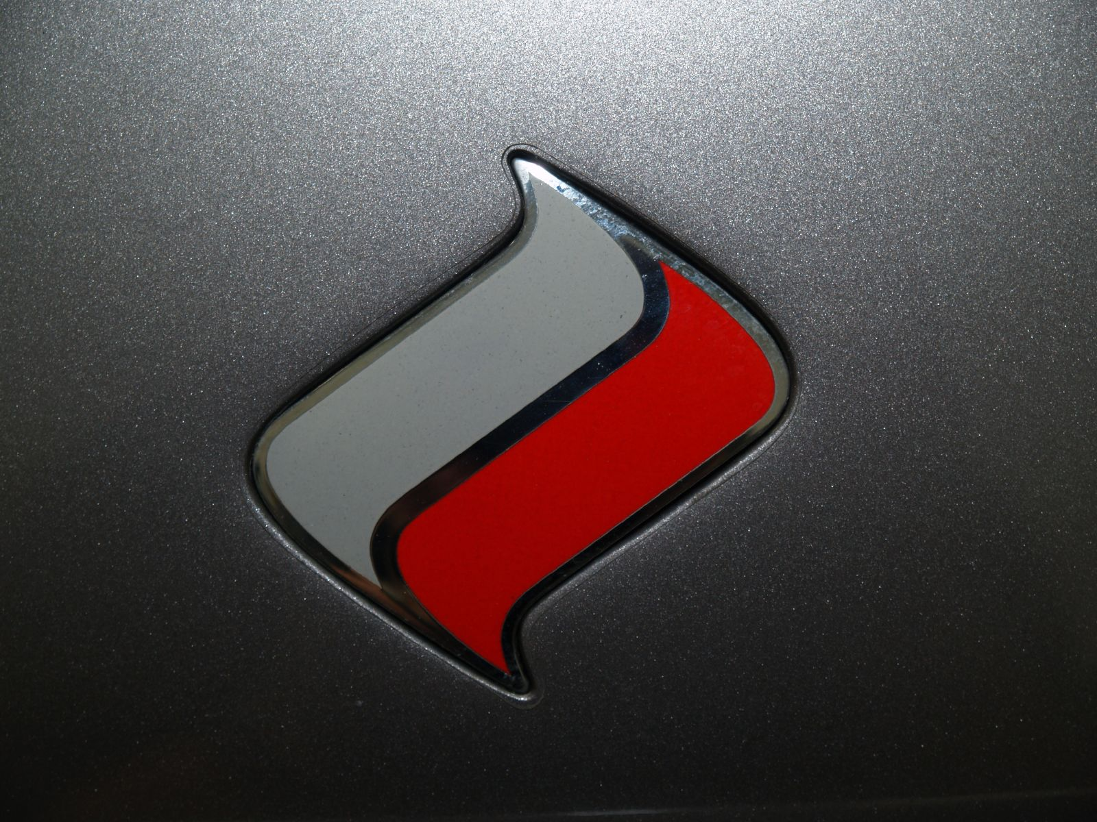 The Ascari badge on a KZ1.